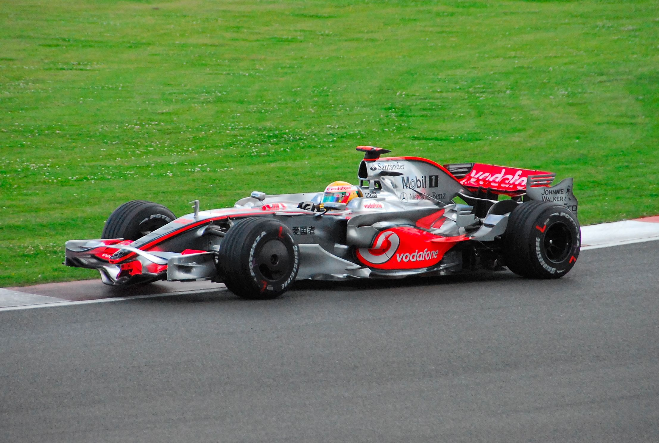 Lewis Hamilton driving for McLaren at the 2008 British Grand Prix.